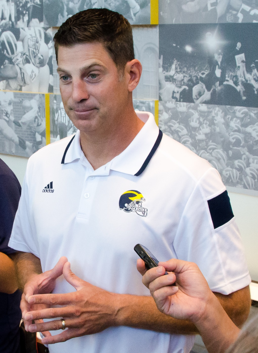 Doug Nussmeier at Michigan's Media Day in 2014